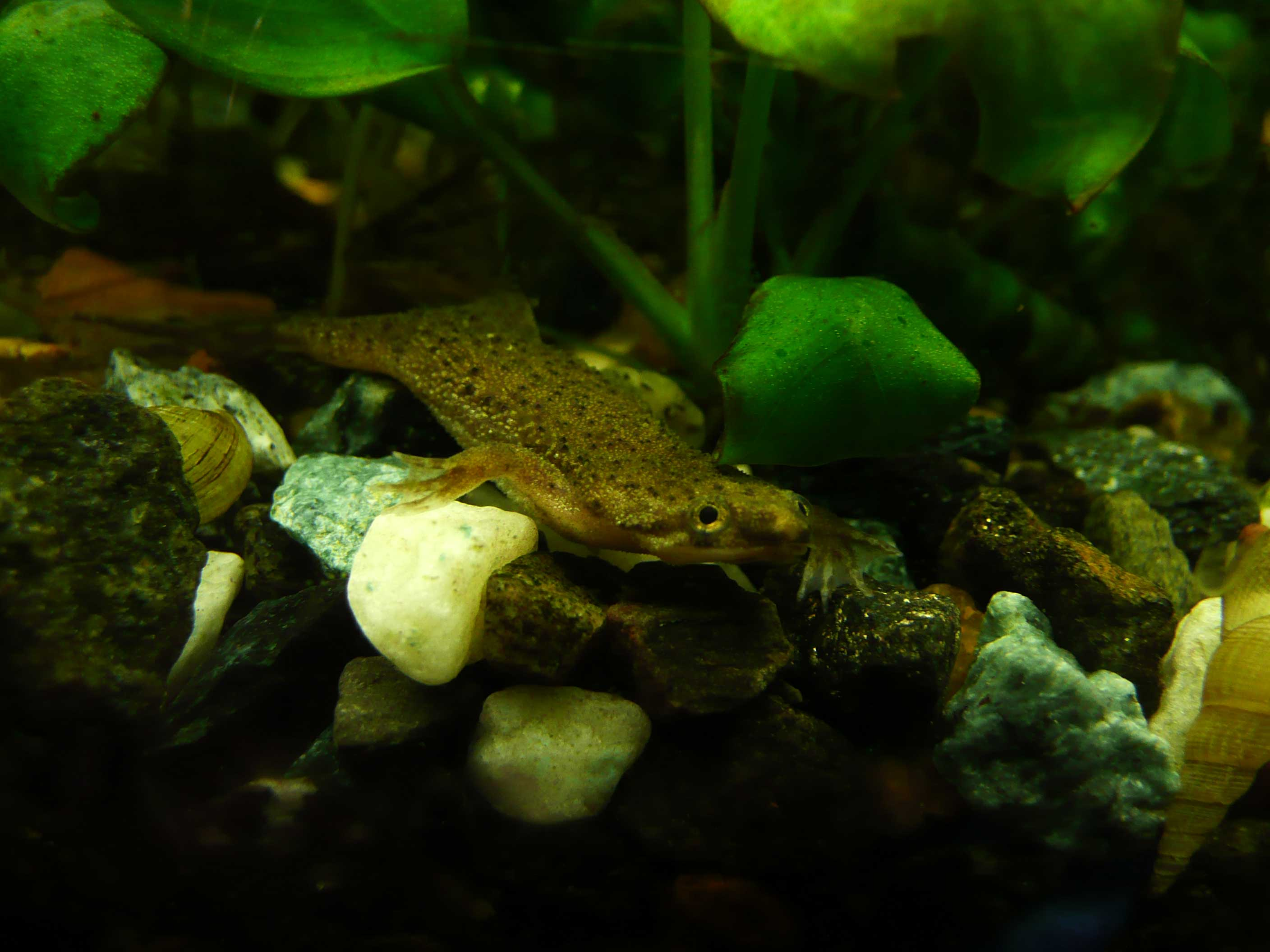 photo of an African dwarf frog in a fishtank